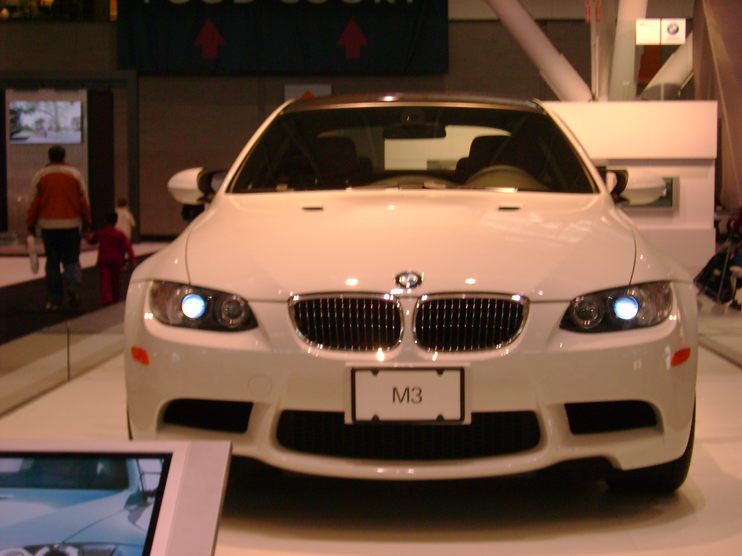 2008 BMW M3 coupe photographed in USA.